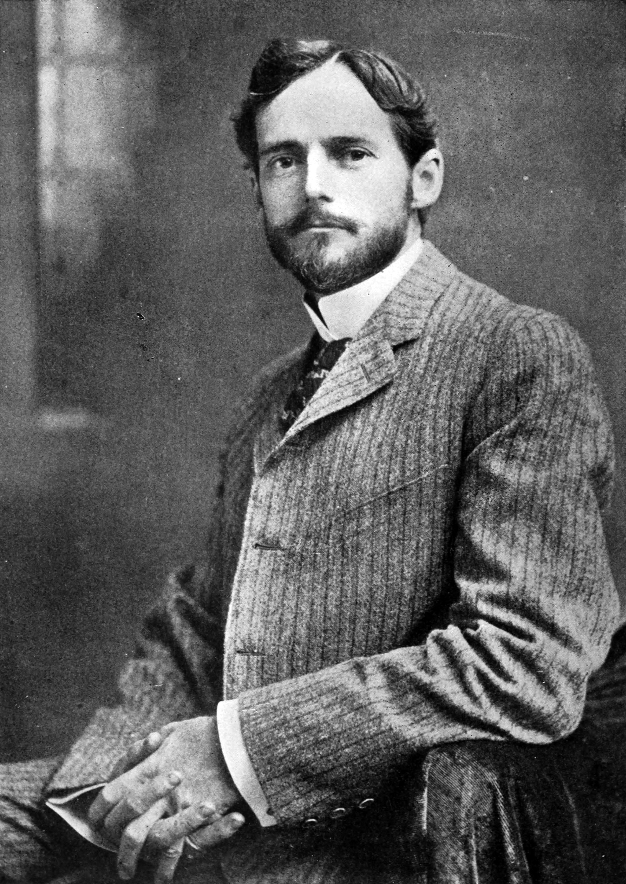 Hermon Atkins MacNeil around 1907.